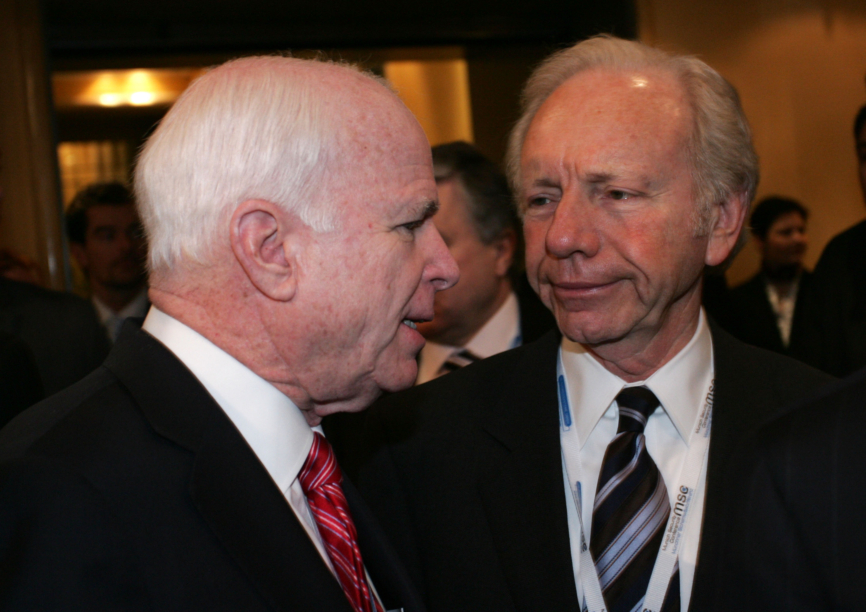 46th Munich Security Conference 2010: Senator Joseph I. Lieberman (ri) and Senator John McCain (le).